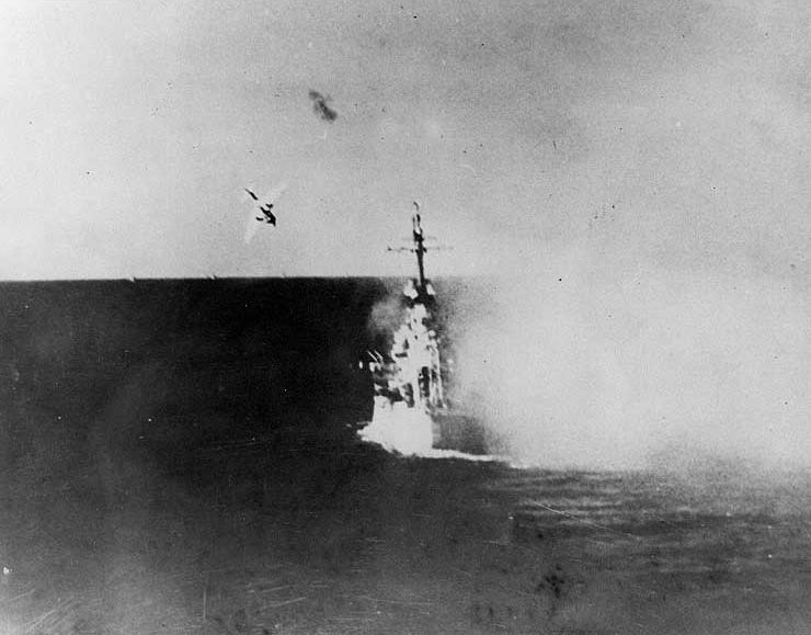 A Japanese Kamikaze aircraft diving on the U.S. Navy light cruiser USS Columbia (CL-56) at 1729 hrs on 6 January 1945, during the Lingayen Gulf operation. This plane hit the main deck by the after gun turret, causing extensive damage and casualties. The plane and its bomb penetrated two decks before exploding, killing 13 and wounding 44.